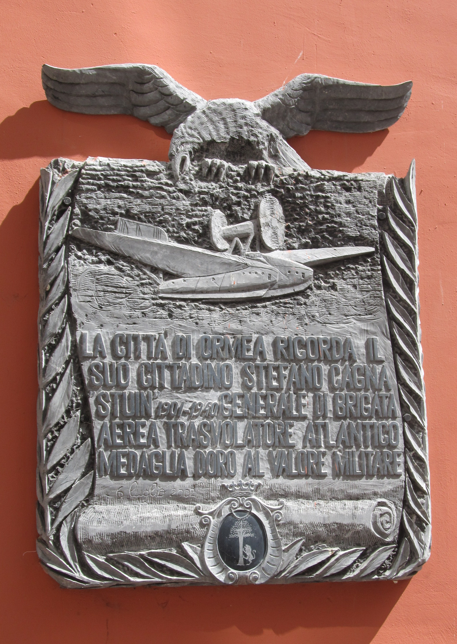 Memorial tablet to Stefano Cagna (Ormea, 1901-1940)